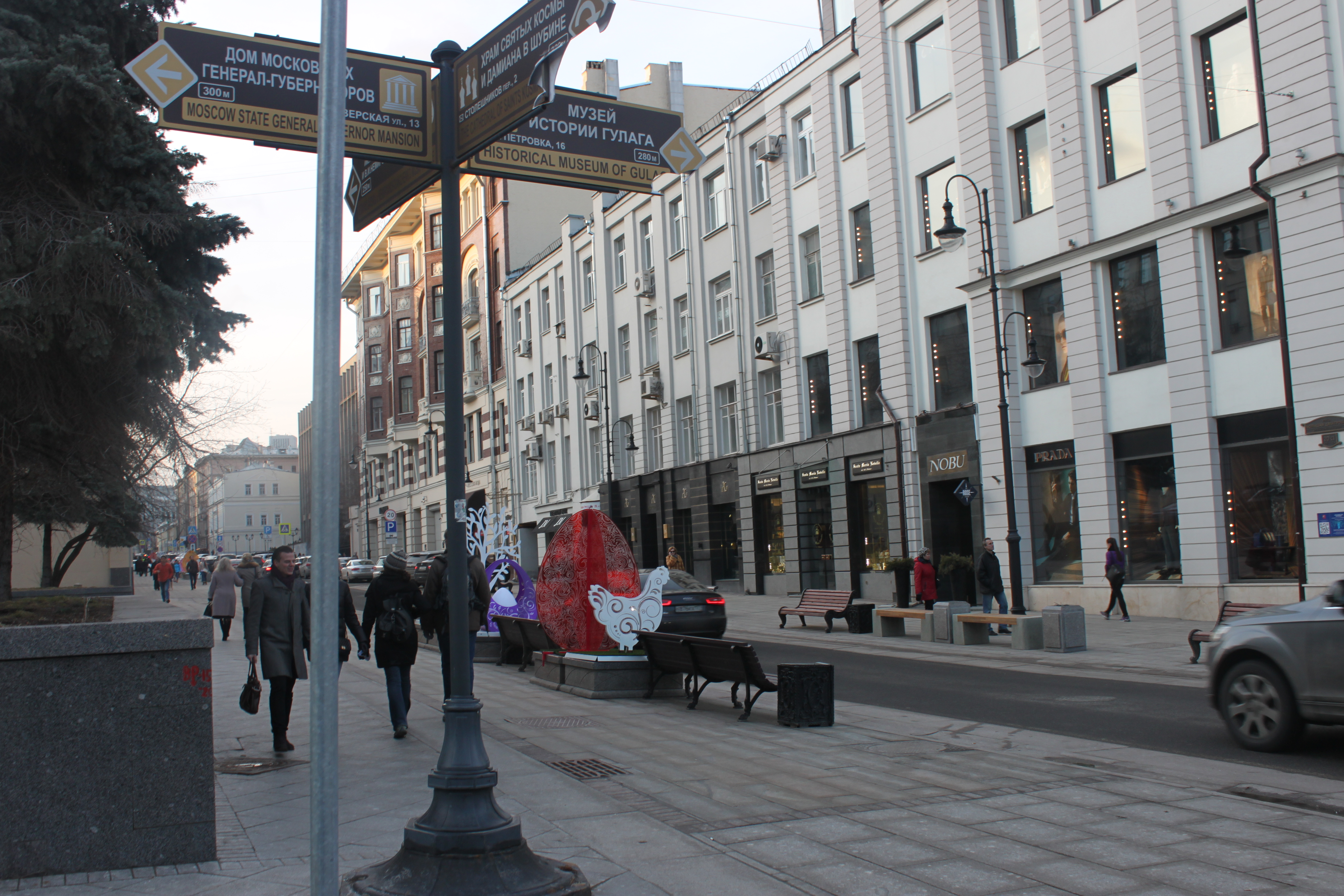 Bolshaya Dmitrovka Street (2015-04-04).